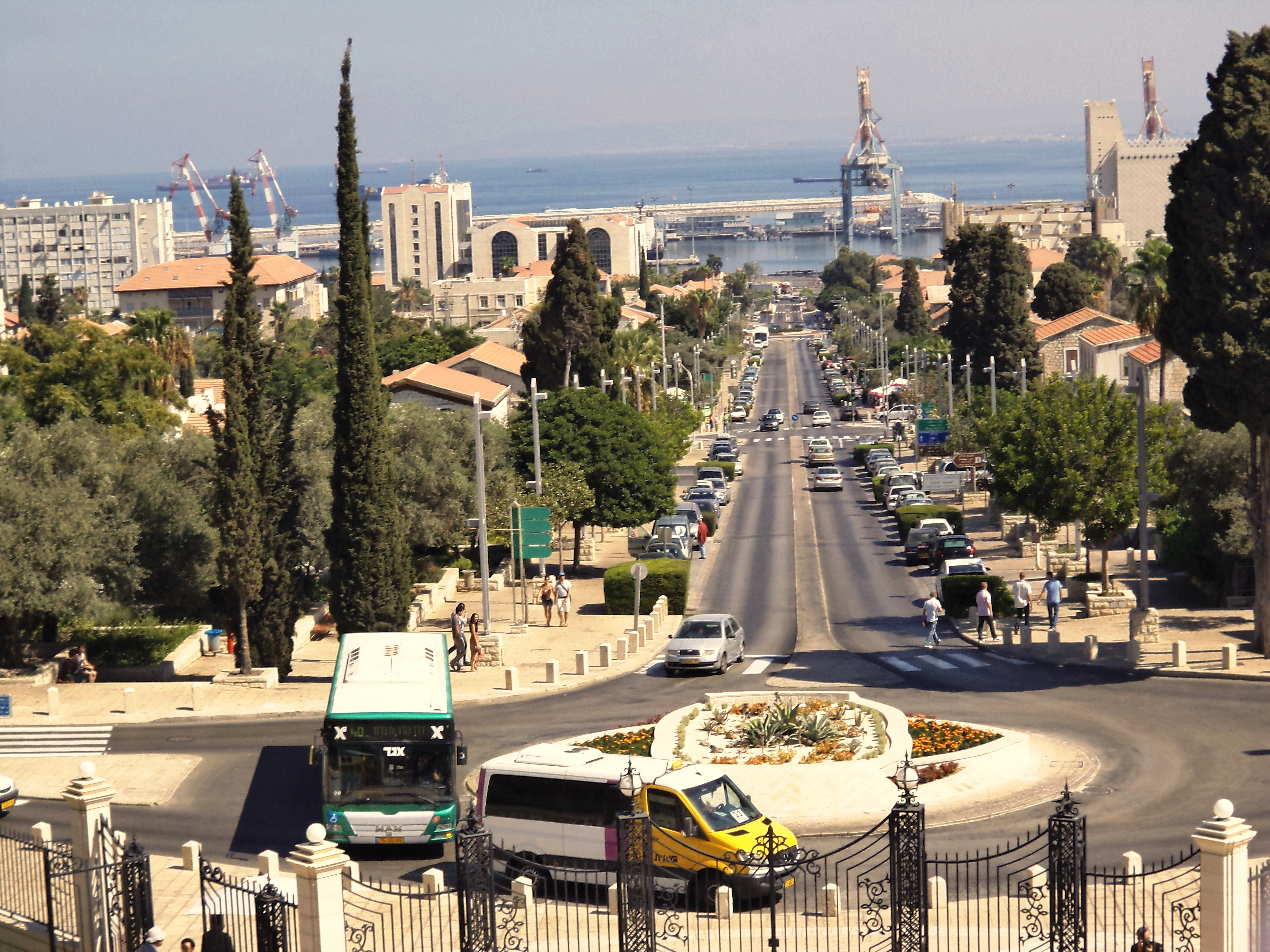 Haifa. Everyday life of the city.